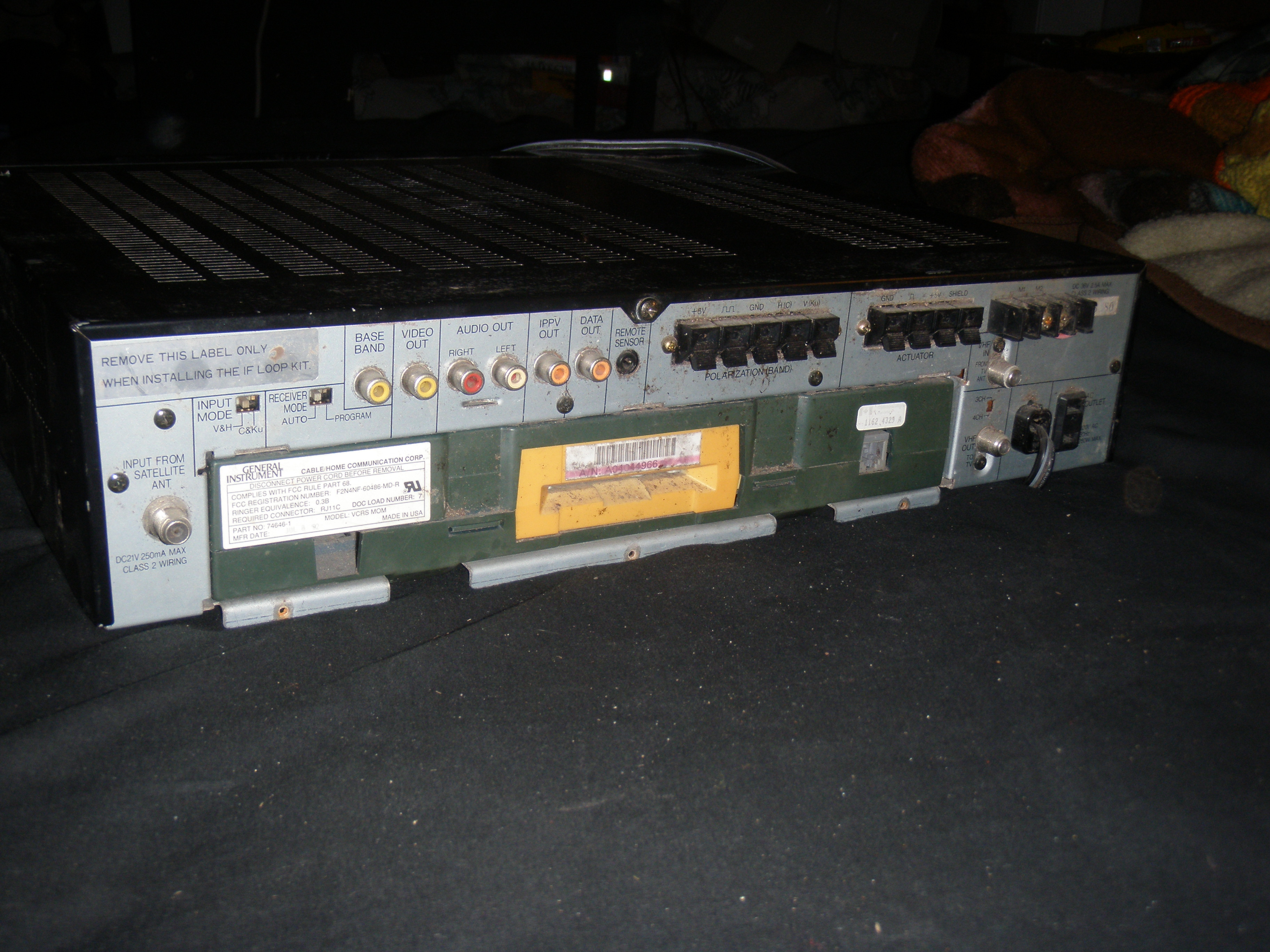 Back of a VideoCipher satellite receiver by General Instrument by Toshiba. I created this work entirely by myself.